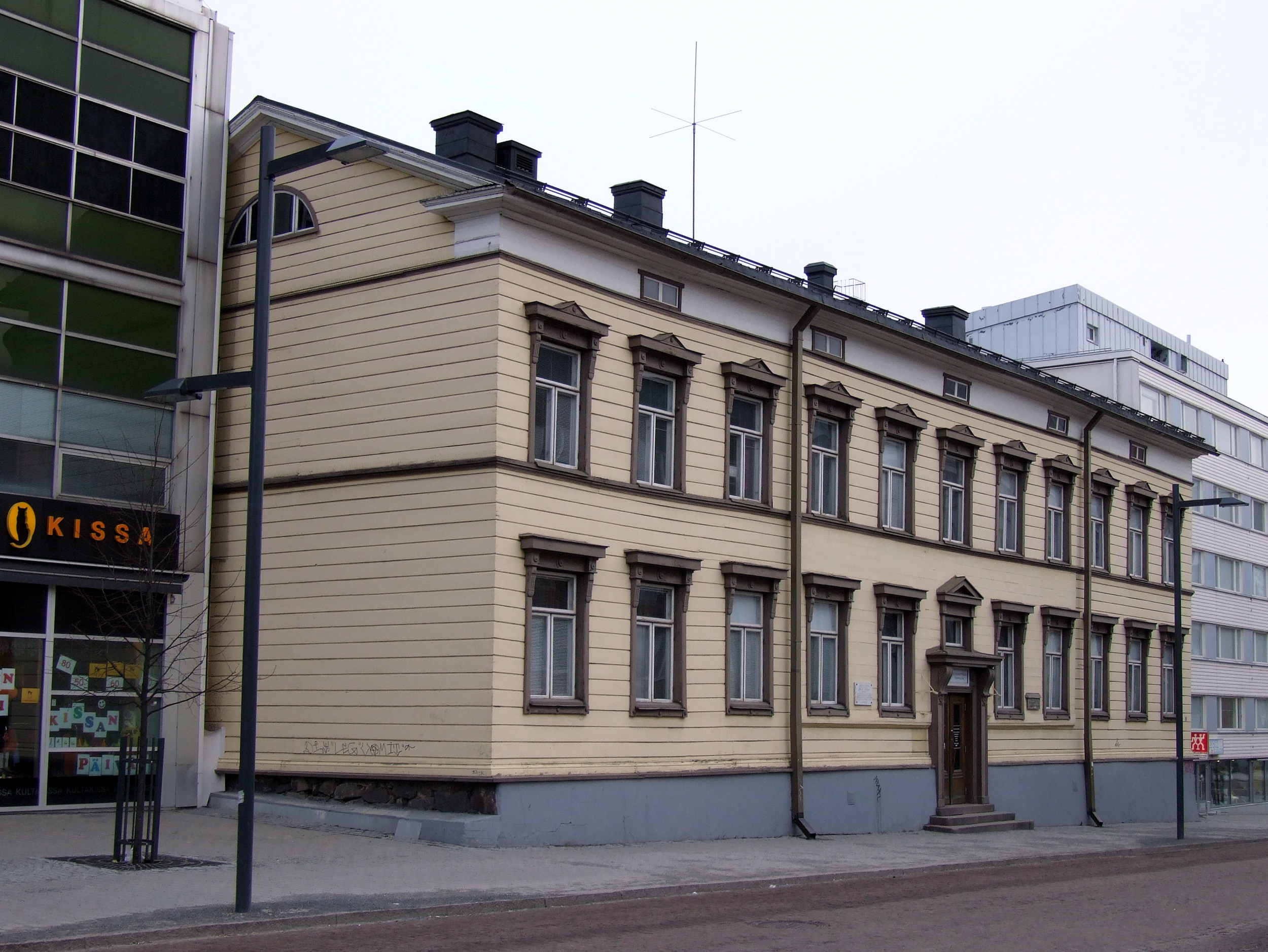 Toppelius House in Oulu. Originally a one story house was built in 1826 - the second floor was added in 1837.